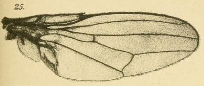 Wing of Halmopota salinaria (Diptera: Ephydridae)